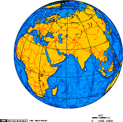 Orthographic projection centred over Gwadar, Pakistan.